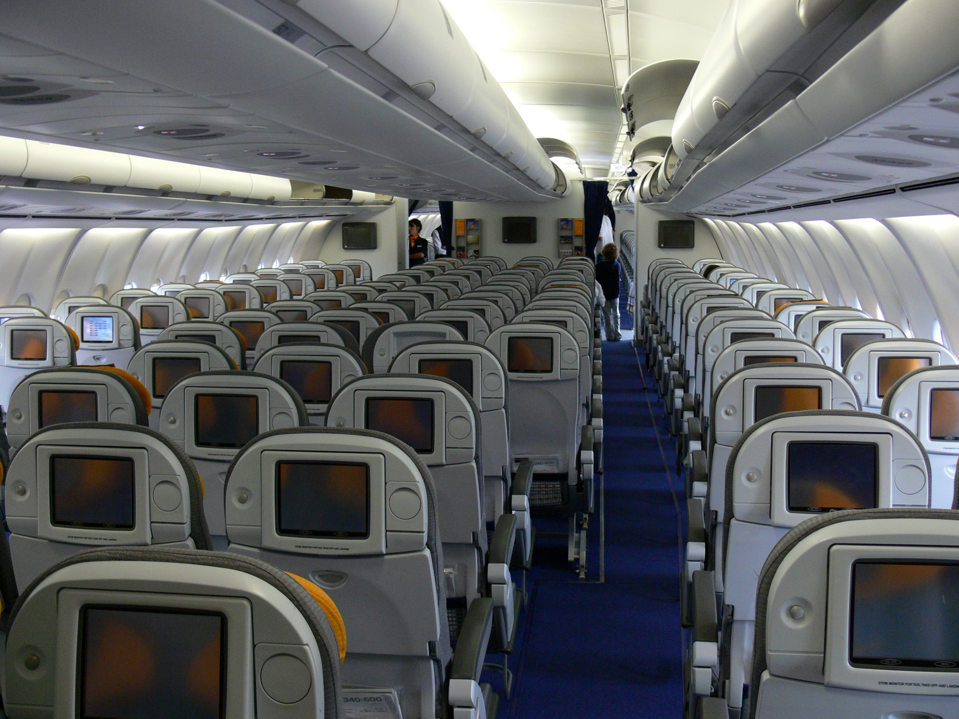 Economy cabin section of Lufthansa's A340-600 D-AIHK at Kotoka International Airport at Accra, Ghana